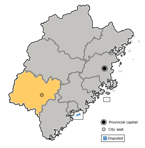 The prefecture-level city of Longyan is highlighted on this map of Fujian province, People's Republic of China.